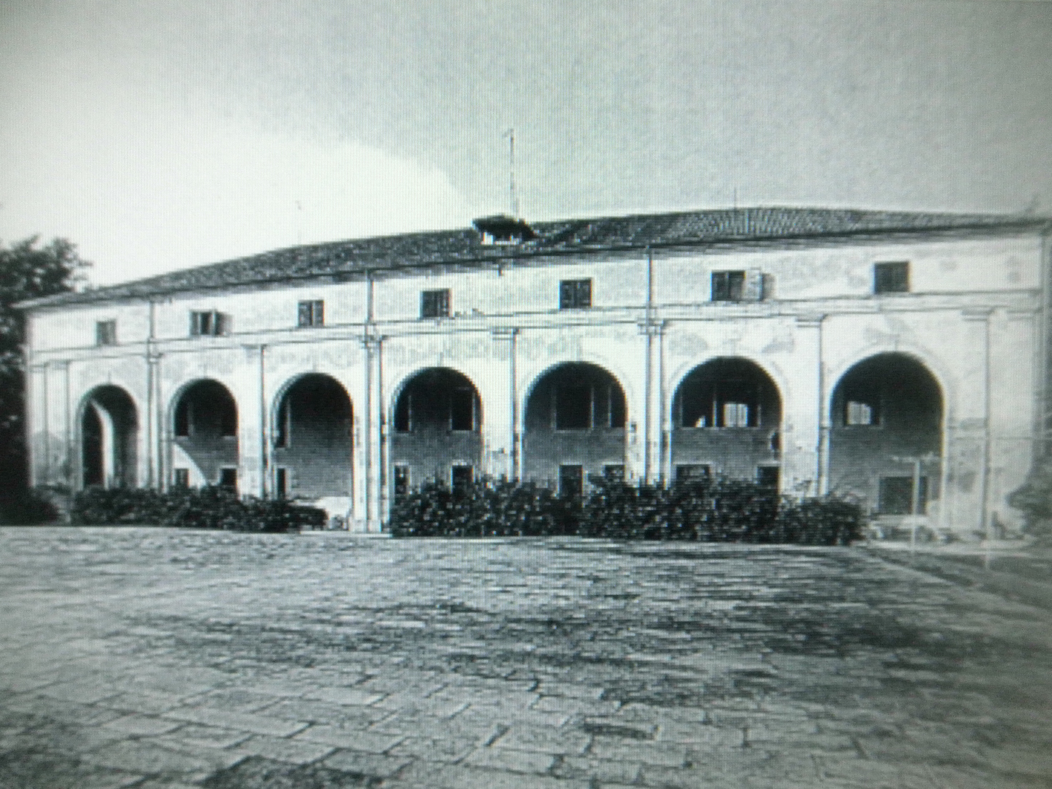 Une ancienne villa de vénétie photo de 1899